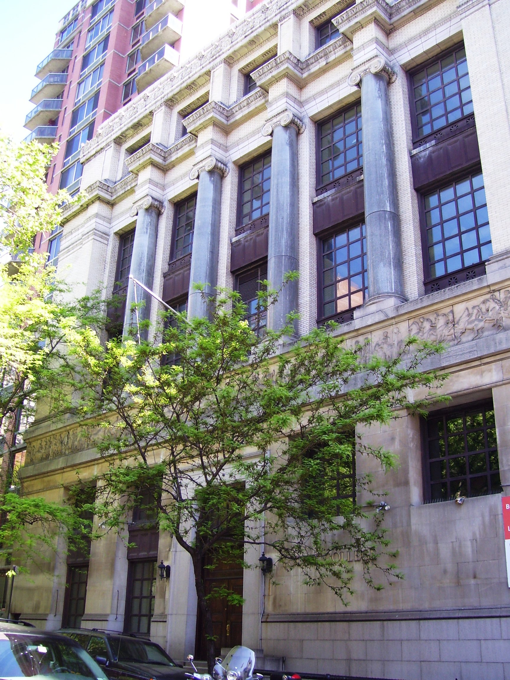 The building located at 160 Lexington Avenue on the corner of East 30th Street in the Rose Hill neighborhood of Manhattan, New York City, was originally the New York School of Applied Design for Women, built in 1908-09 and designed by Harvey Wiley Corbett in neo-Roman style. It became the Pratt-New York Phoenix School of Design, and is currently (2011) the Lexington Avenue Campus of Tuoro College -- although the building has "Building for Sale of Long-Term Lease" signs on it. (Source: AIA Guide to NYC (4th ed.))